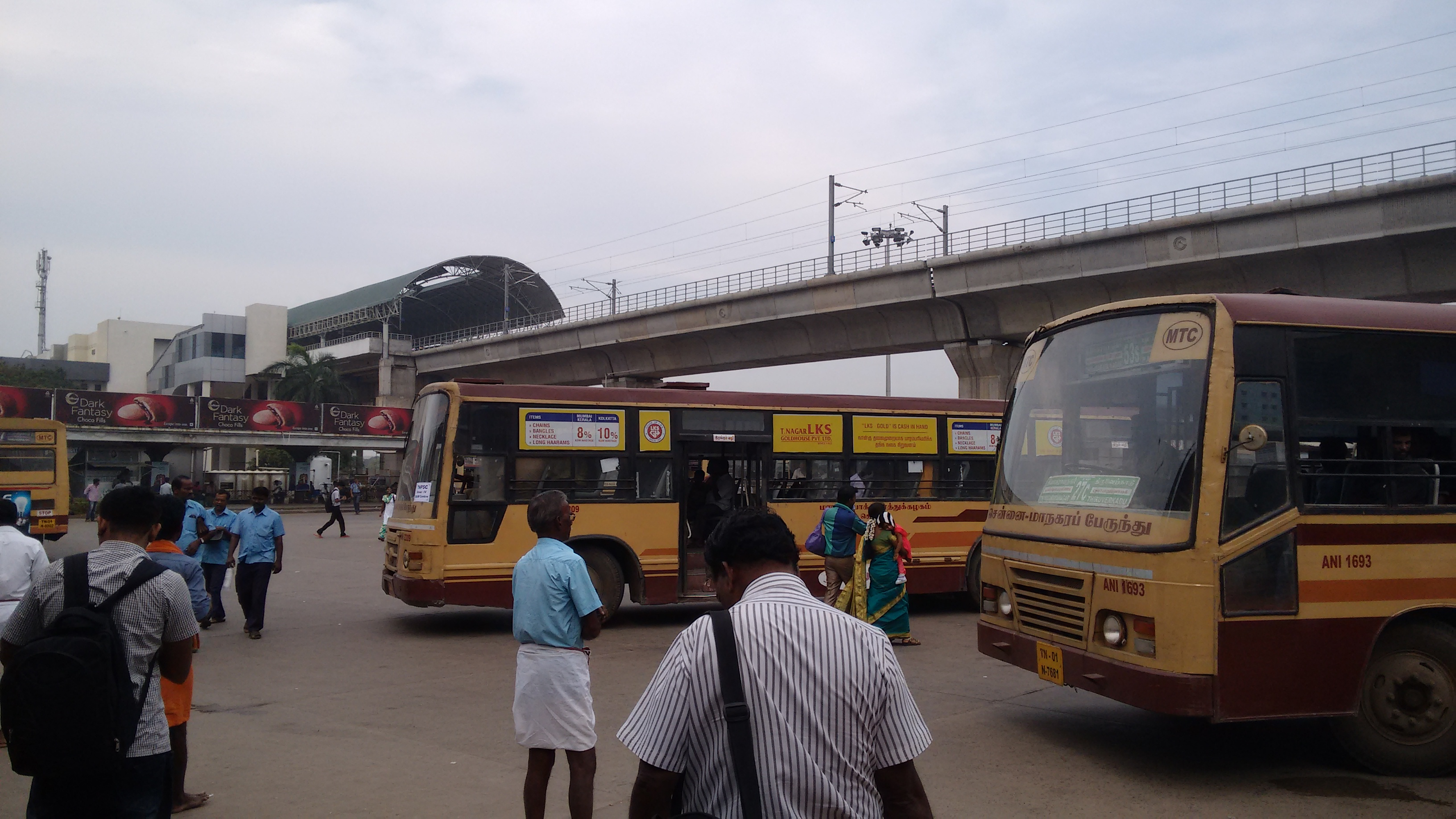 rush hour and at the background construction metro rail project